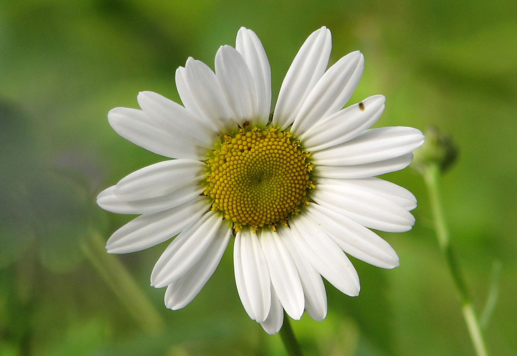 Matricaria perforata syn. Tripleurospermum inodorum ie. scentless camomile.